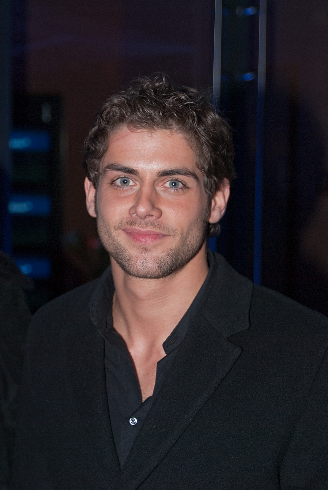 Roy Peter Link, German actor at Berlinale (Berlin International Film Festival) 2009